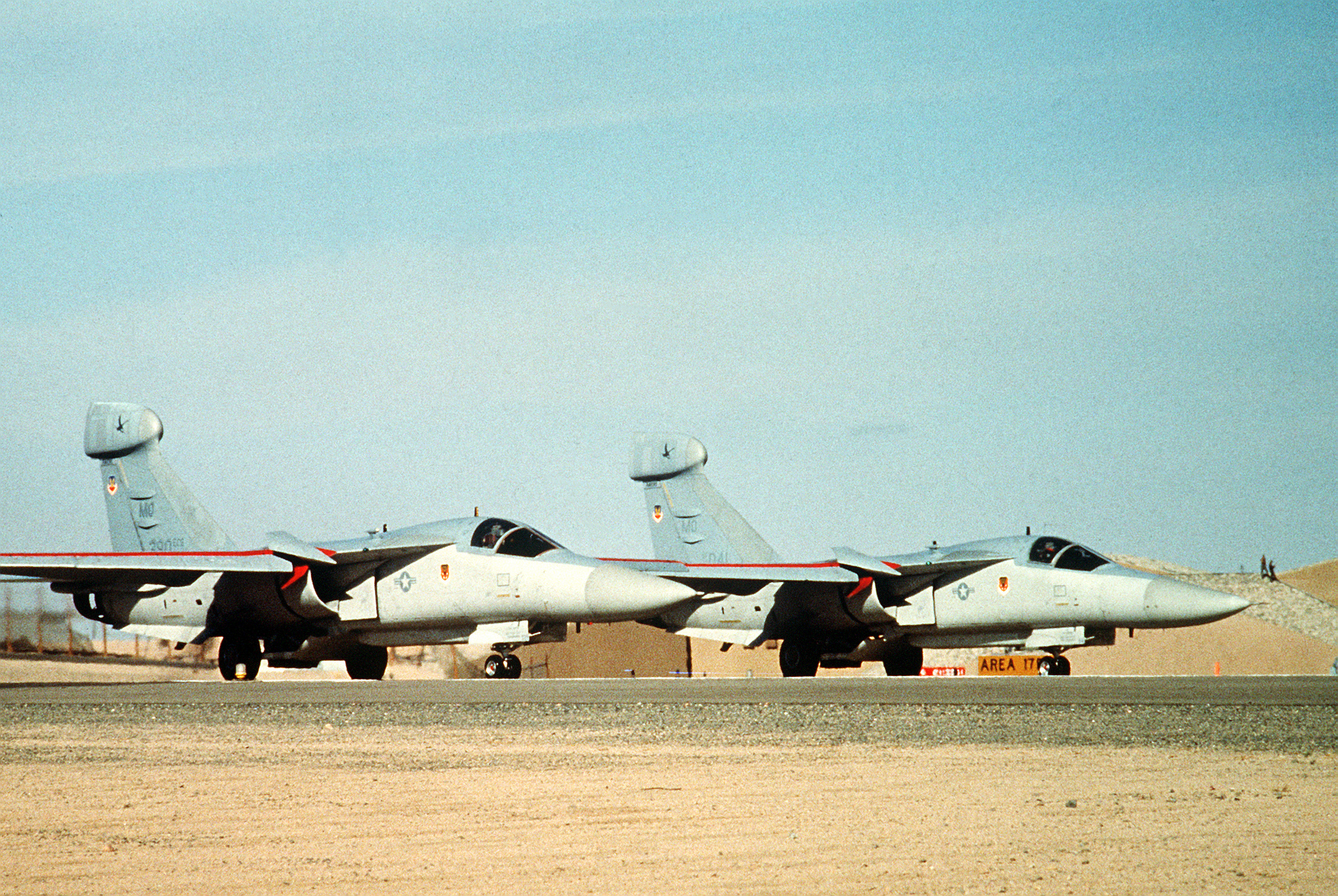 EF-111A Raven aircraft prepare to takeoff on a mission during Operation Desert Shield.